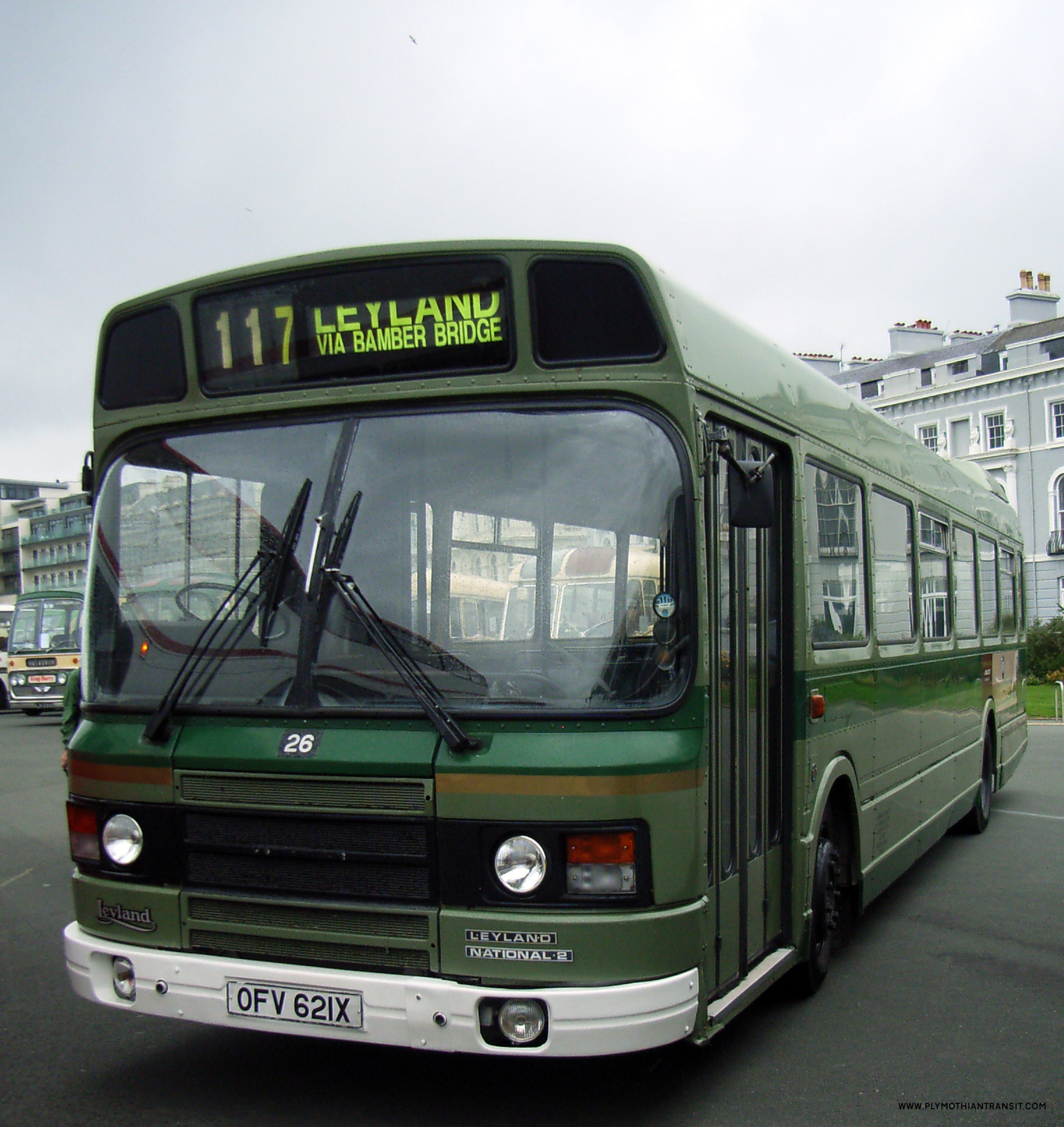 26 July 2009 Plymouth WNPG Rally